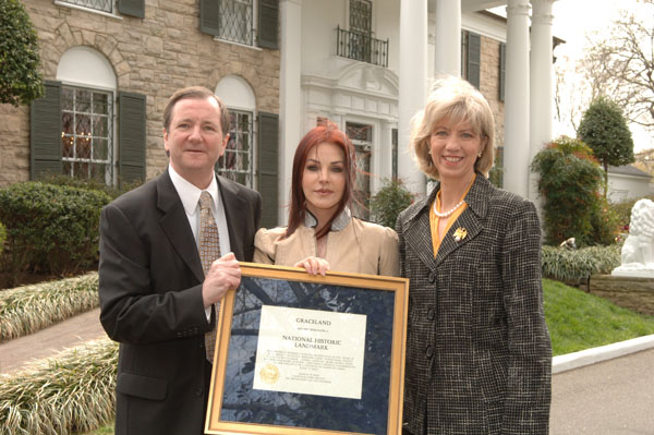 Events marking designation of Graceland Mansion, home of Elvis Presley, Memphis, Tennessee, as a National Historic Landmark, with appearances by, left to right, Elvis Enterprises chief Jack Soden, actress Priscilla Presley, and Secretary Gale Norton.